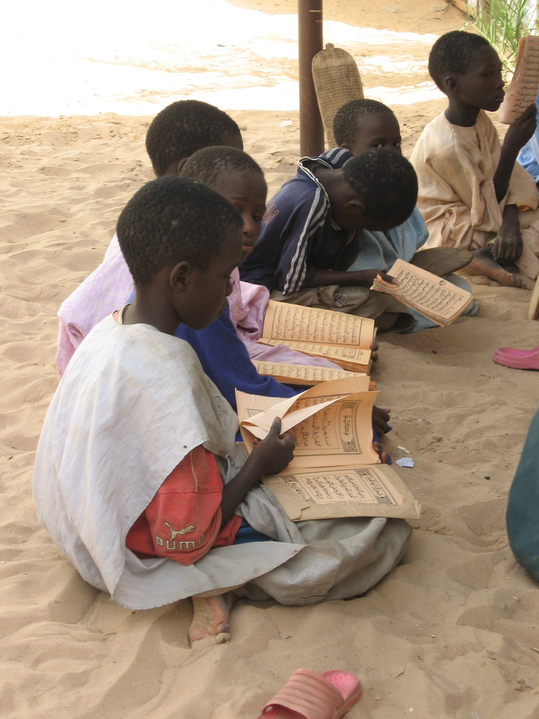 Children in a Quranic school in Touba, Senegal